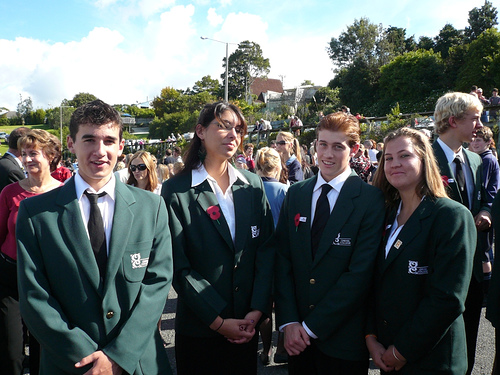 Photo taken by me (Kyle Bluck) at the Anzac Day parade in Silverdale, Auckland, New Zealand. Copyright.